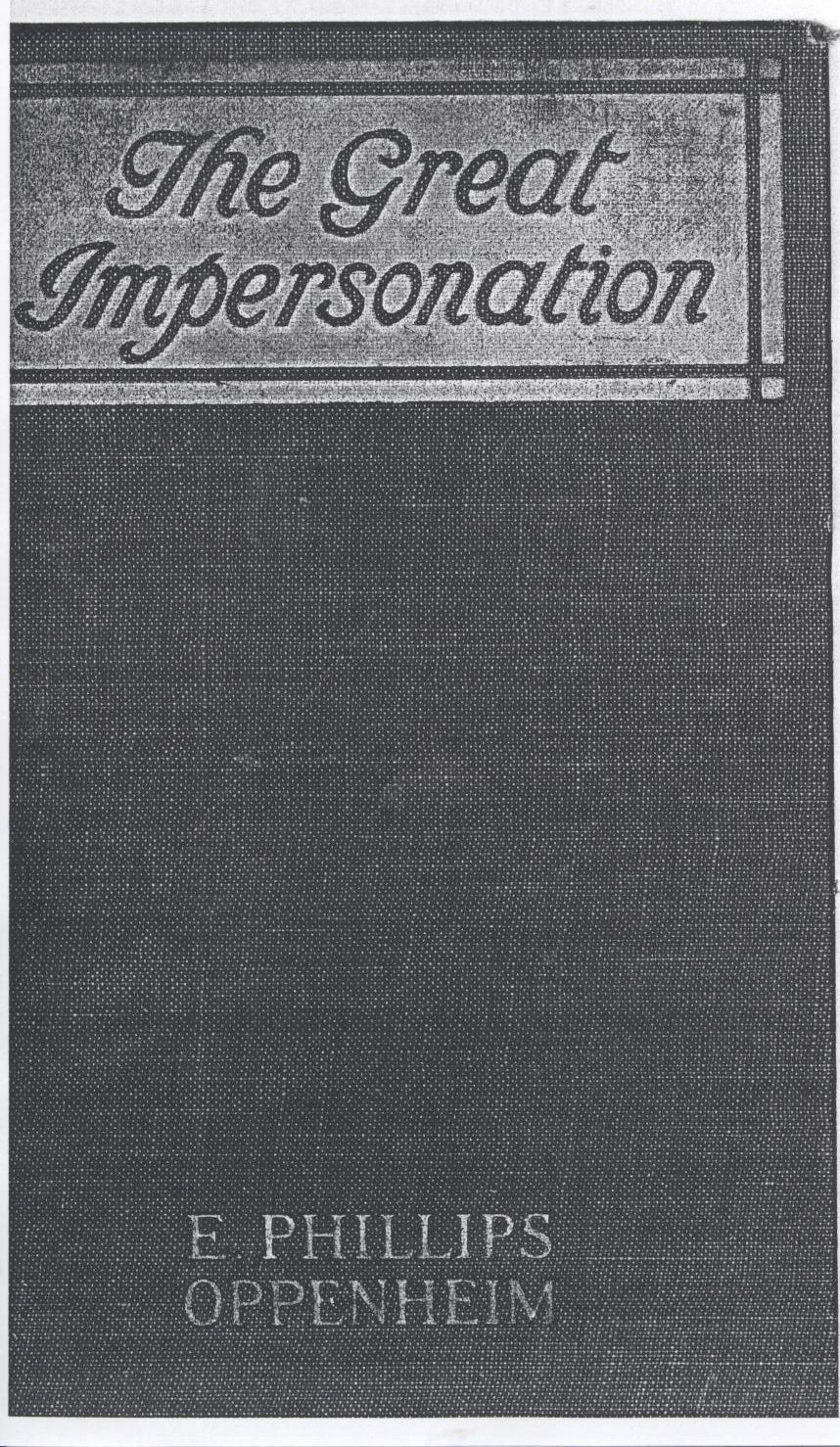 Original book cover of "The Great Impersonation" by E. Phillips Oppenheim.